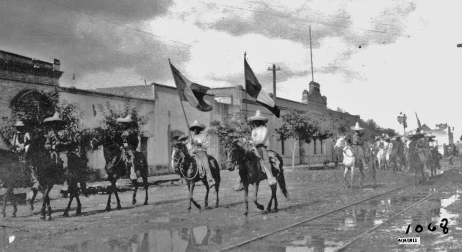 Torreón, Avenida Morelos and Calle Treviño city jail troop 1911 May 15, 1068 (1) This image is the photographic collection of Hartfot H. Miller Municipal Archives and Historical Research Institute Eduardo Guerra de Torreón, Coahuila. Miller dated serial number and gave many of his photographs, some just printed them the serial number so they could weave into the dated photos. These can be found on May 15, 1911 around 5 pm (by projecting shadows). Avenues in Torreon run east-west and north-south and back streets. Prison is the building with the flagpole. This prison was released Professor Juan N. Oviedo prisoner who had six months for their support antireeleccionismo. On this date was released by the Madero troops.